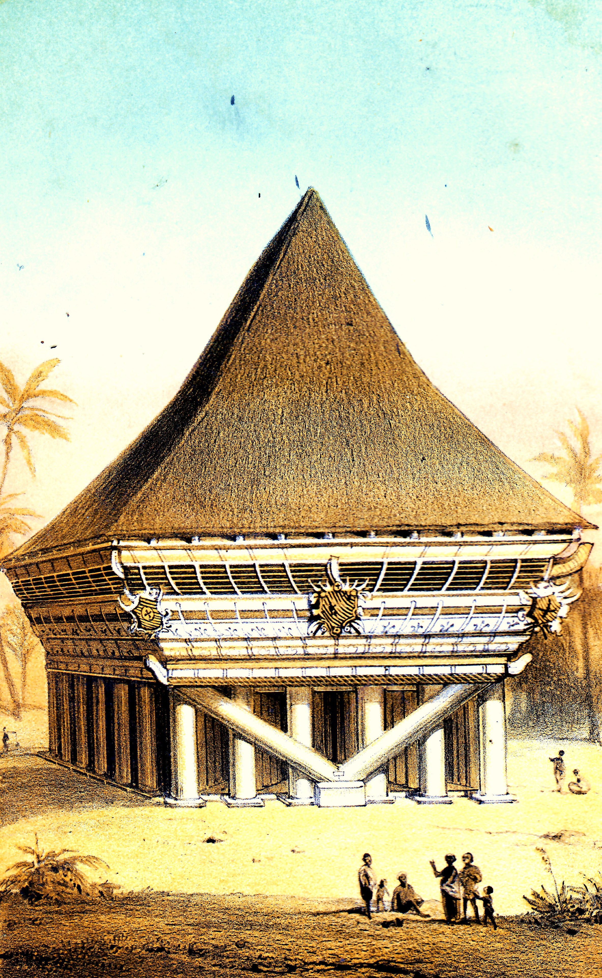 Paleis van de radja van Orahili